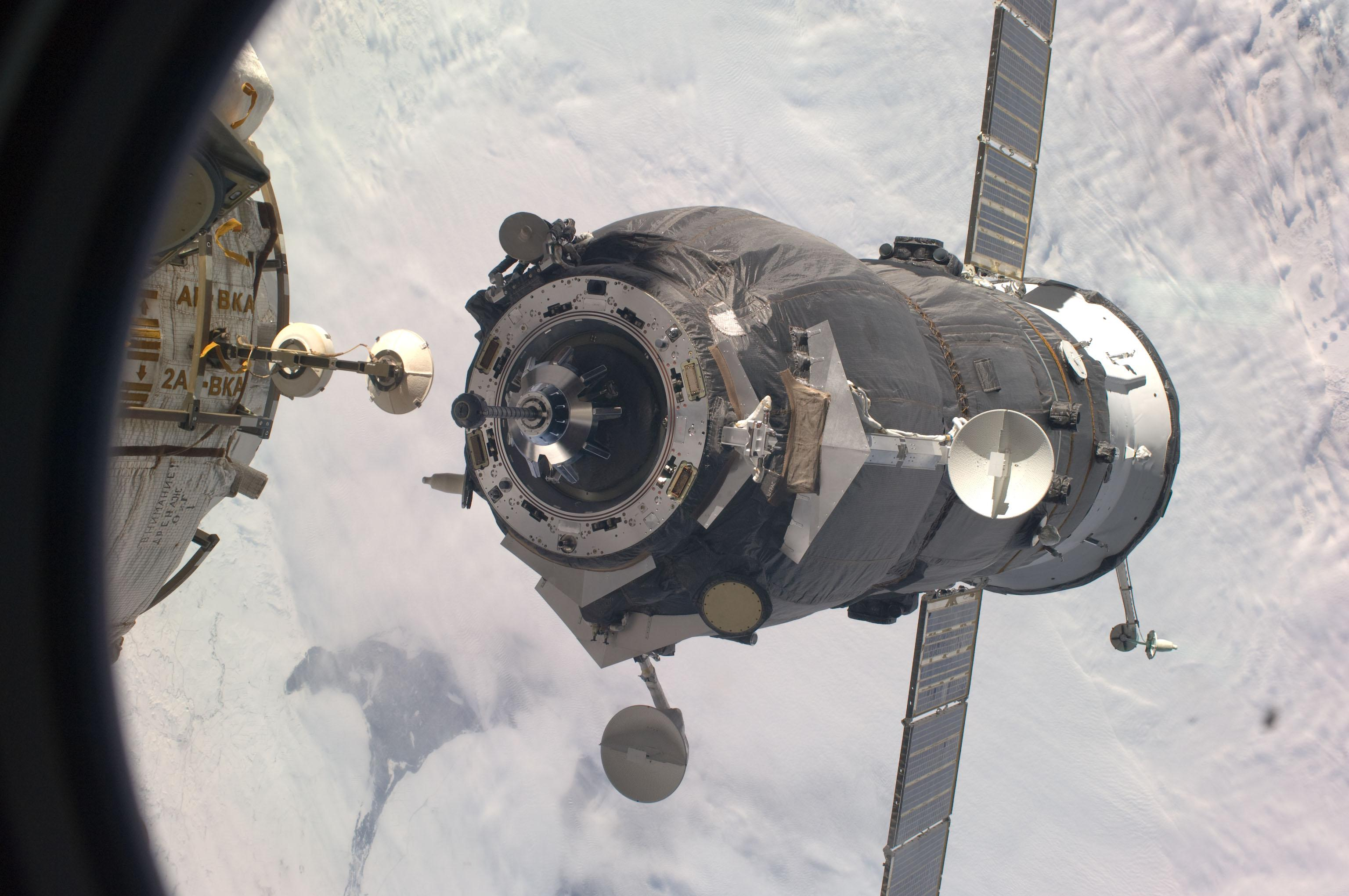 Progress M-66 seen from the International Space Station